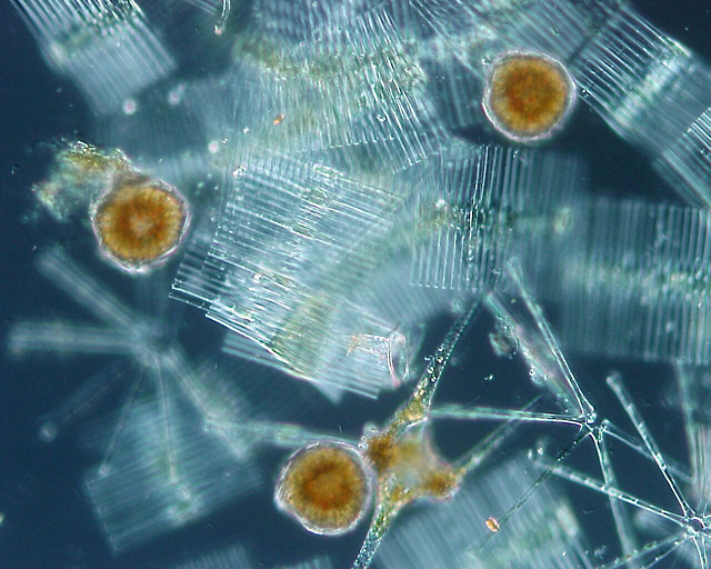 Freshwater Phytoplankton, mainly Diatoms and Dinoflagellates / from Lake Chuzenji, Nikko, Tochigi Pref., Japan / Microscope:Leica DMRD (DIC)